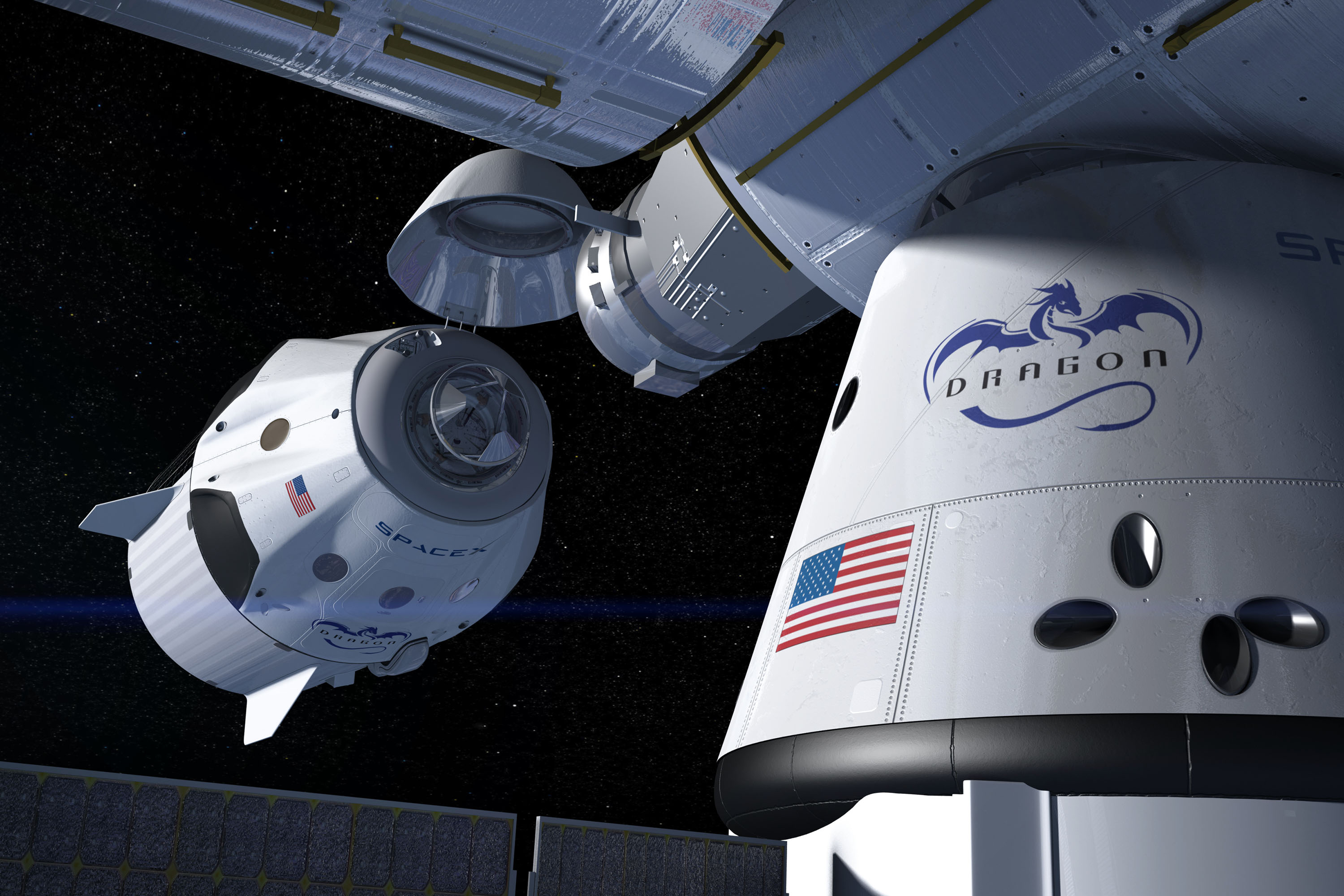 This artist's concept shows a SpaceX Crew Dragon docking with the International Space Station as it will during a mission for NASA's Commercial Crew Program. NASA is partnering with Boeing and SpaceX to build a new generation of human-rated spacecraft capable of taking astronauts to the station and expanding research opportunities in orbit.